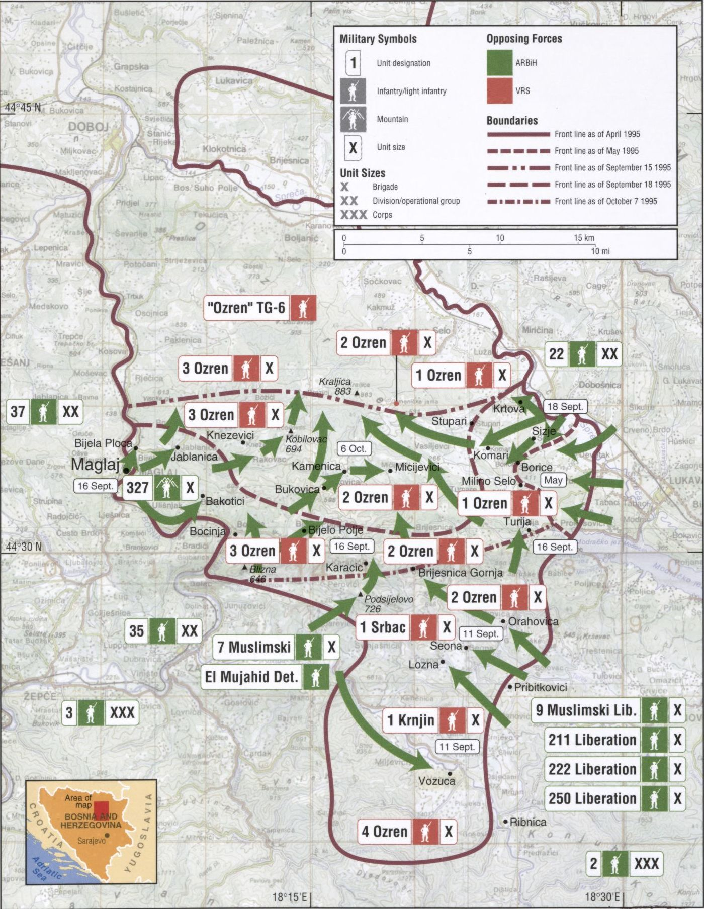 Ozren Mountains, September-October 1995